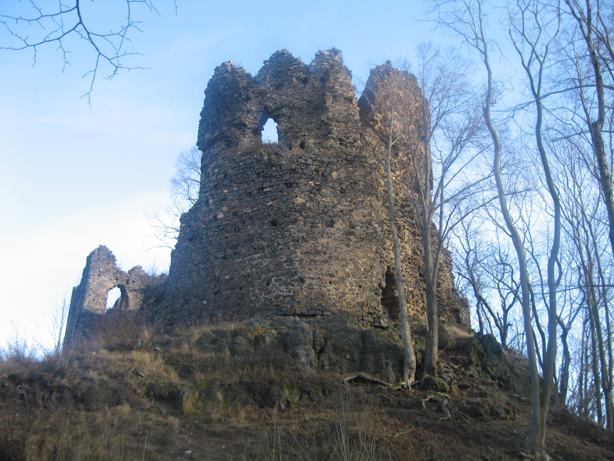 Lestkov (Egerberg) - castle in the Czech Republic